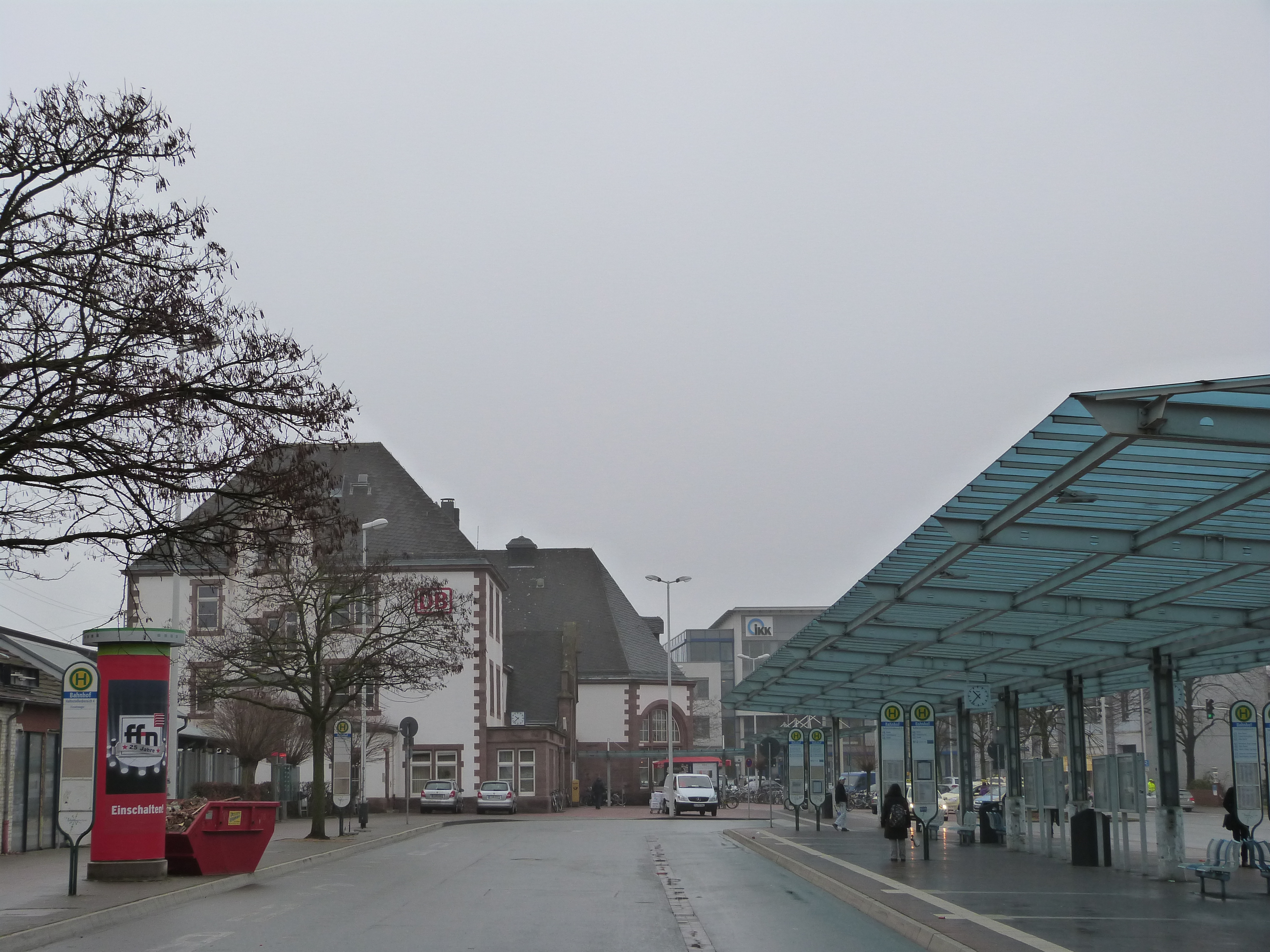 Town: Herford - Reception hall of the Deutsche Bundesbahn-Station (Railway), in the foreground you can see the bus station